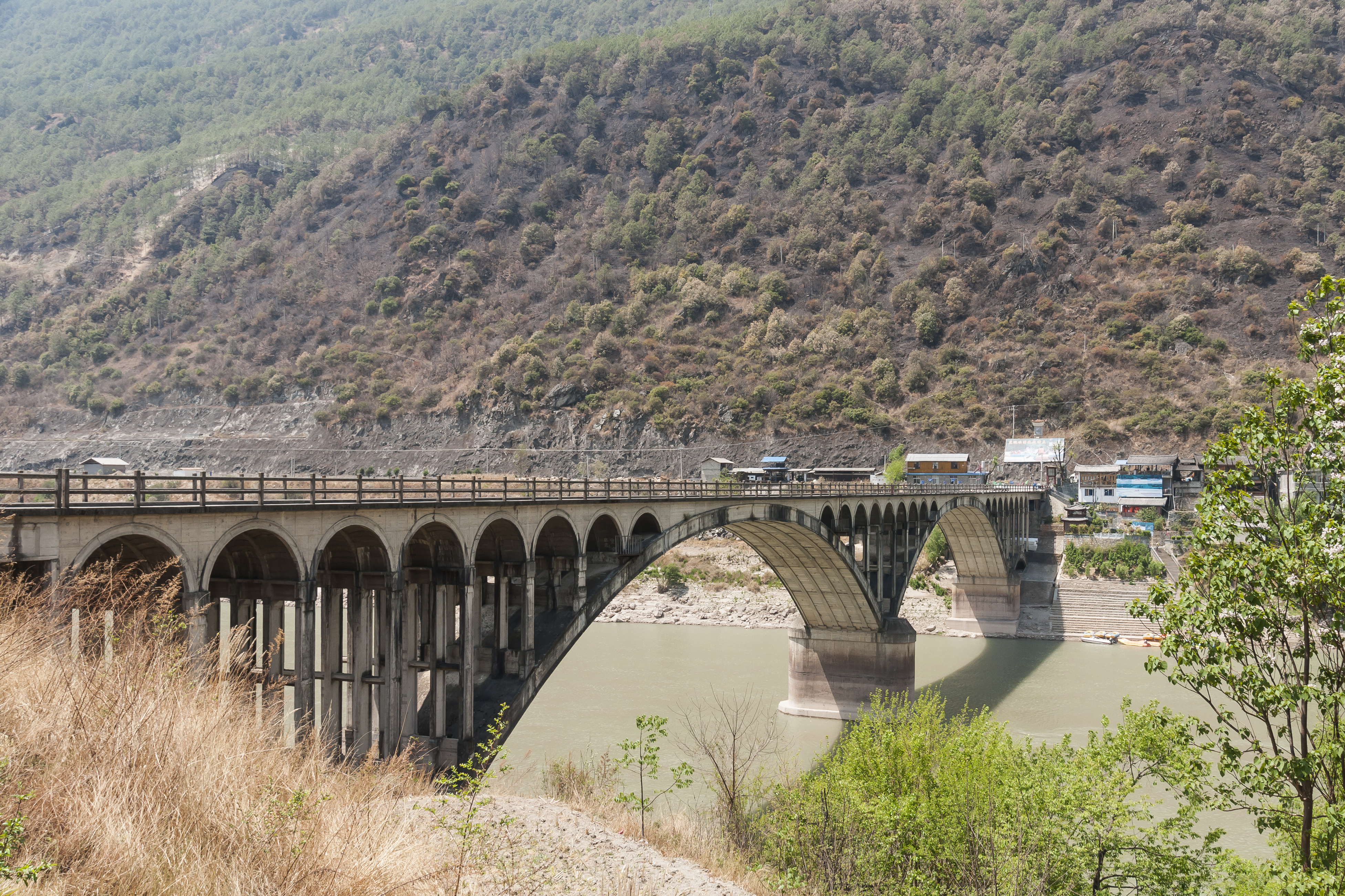 Yunnan, China: Jihong Bridge, the last bridge over Jinsha River before Tiger Leaping Gorge (虎跳峡, Hǔtiào Xiá).